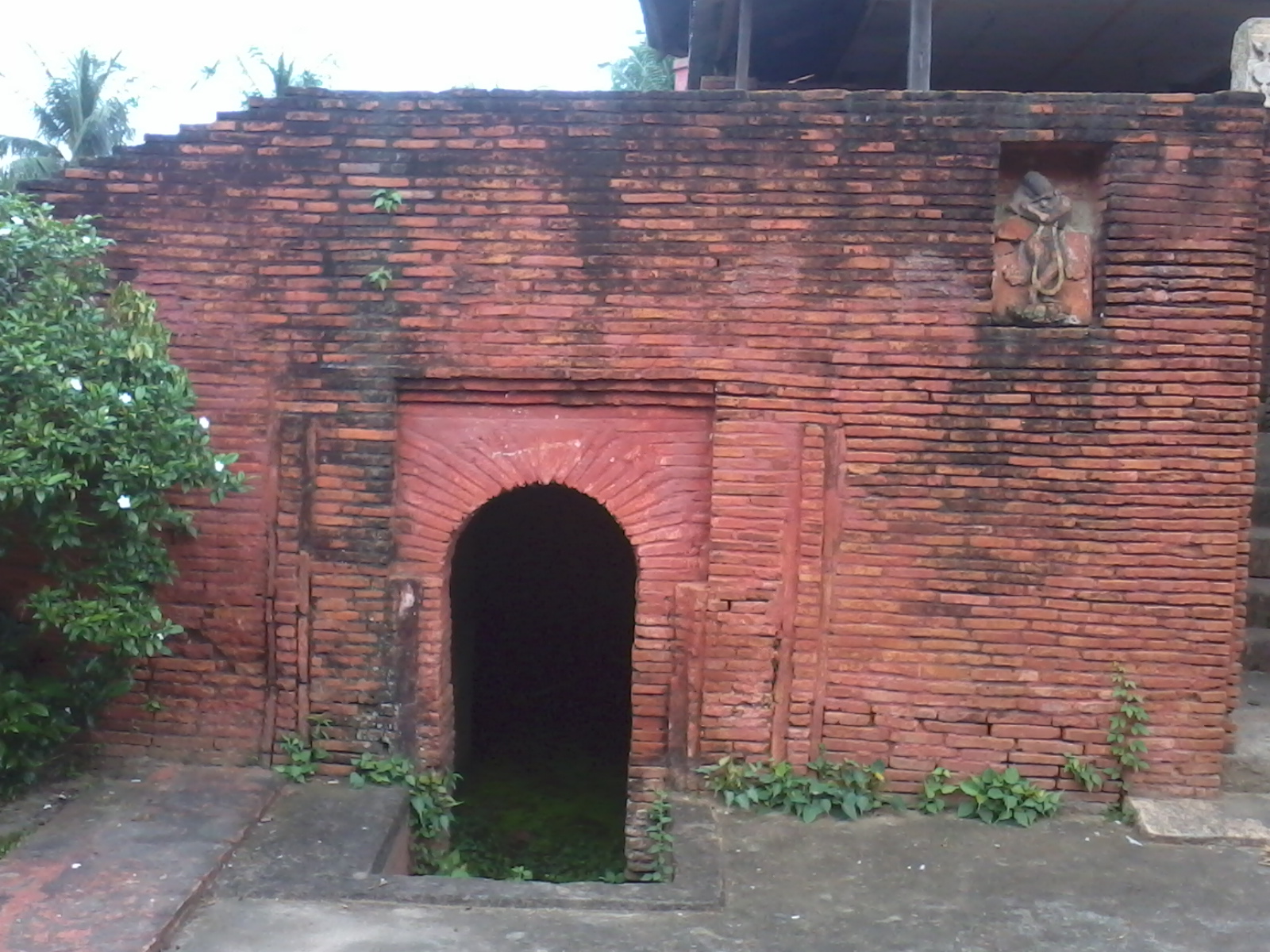 visited Rudreswar Devaloya in North Guwahati and took the photo